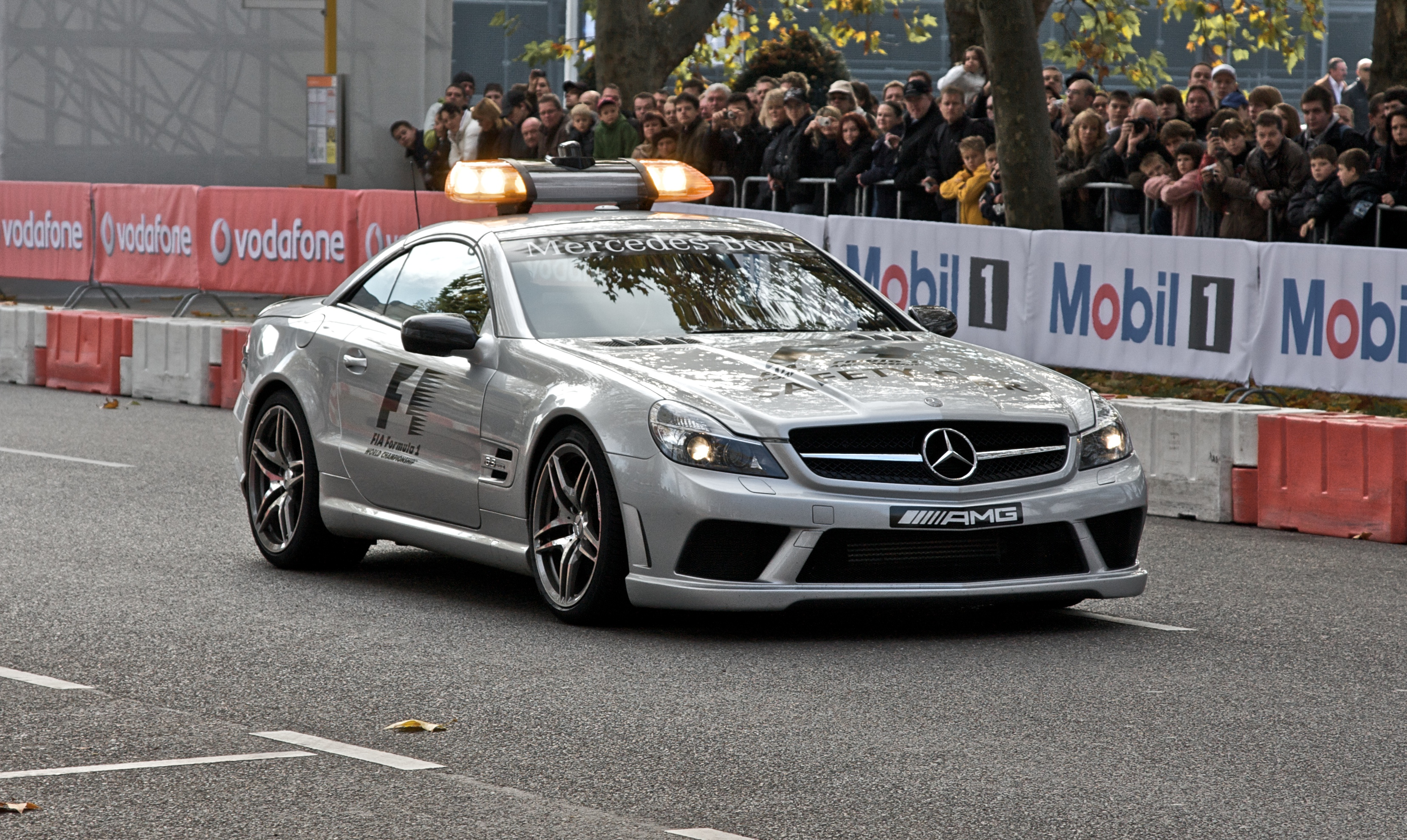 Formula One safety car at Mercedes-Benz Stars and Cars event, Stuttgart, Germany